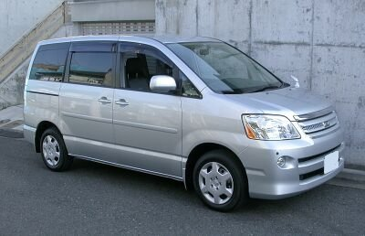 Toyota Noah 2005 Japan domestic model, grade X. Photo taken by owner 2005-10-02 and donated to public domain